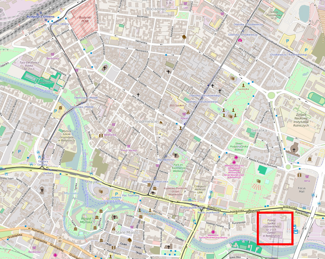 Location on a Bydgoszcz map